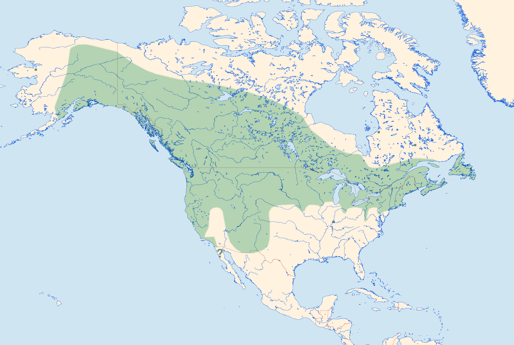 Distribution of Northern Bluet (Enallagma annexum). Data Sources (In case of discrepancies in the map source the youngest in each data source was used): Dennis Paulson: Dragonflies and Damselflies of the East, Princeton Field Guides, Princeton University Press, New Jersey 2011, ISBN 978-0-691-12283-0. Dennis Paulson: Dragonflies and Damselflies of the West, Princeton Field Guides, Princeton University Press, New Jersey 2000, ISBN 978-0-691-12281-6.